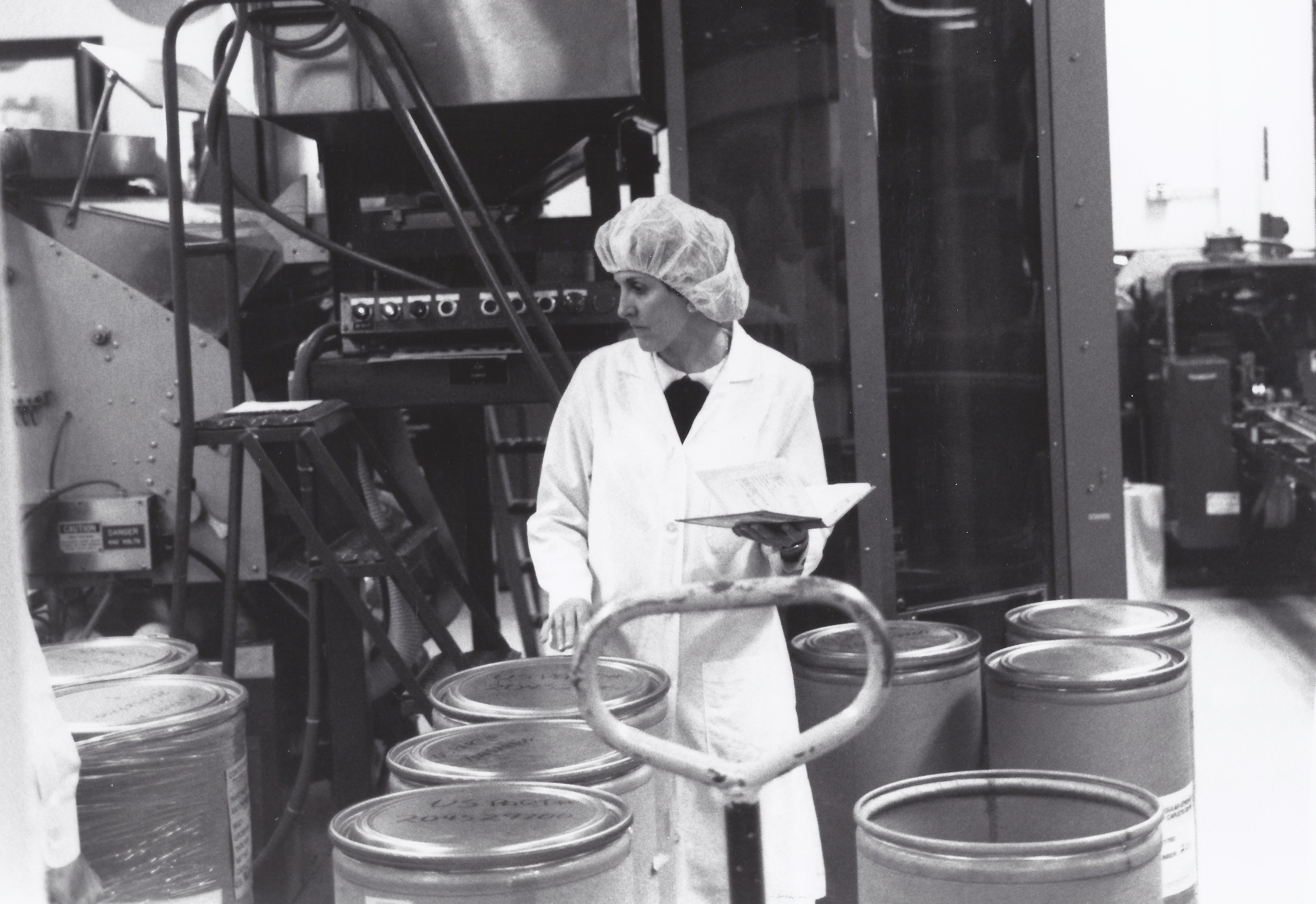 Drug specialist Ann DeMarco examines bulk drug containers for proper labeling and adequate testing by company Quality Control personnel, who are responsible for sampling, testing, and approving all ingredients used in drug production. For more information on FDA History, please visit